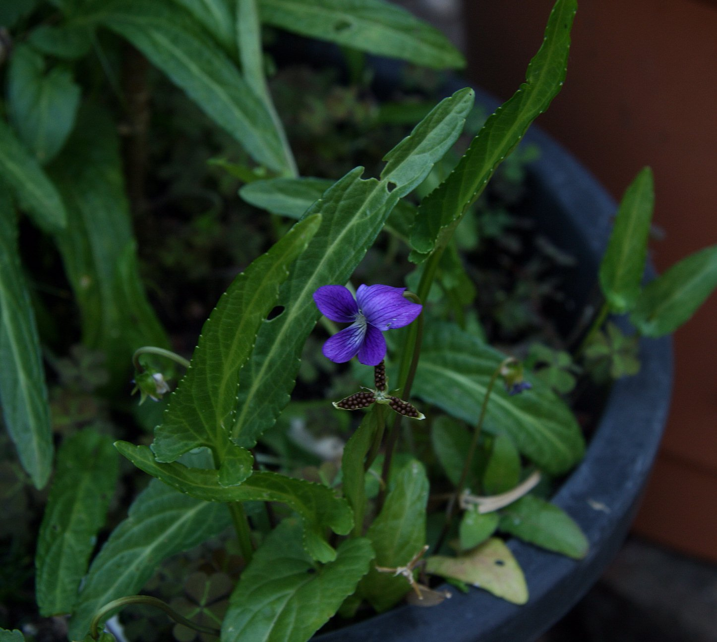 Viola betonicifolia growing in shade in my garden